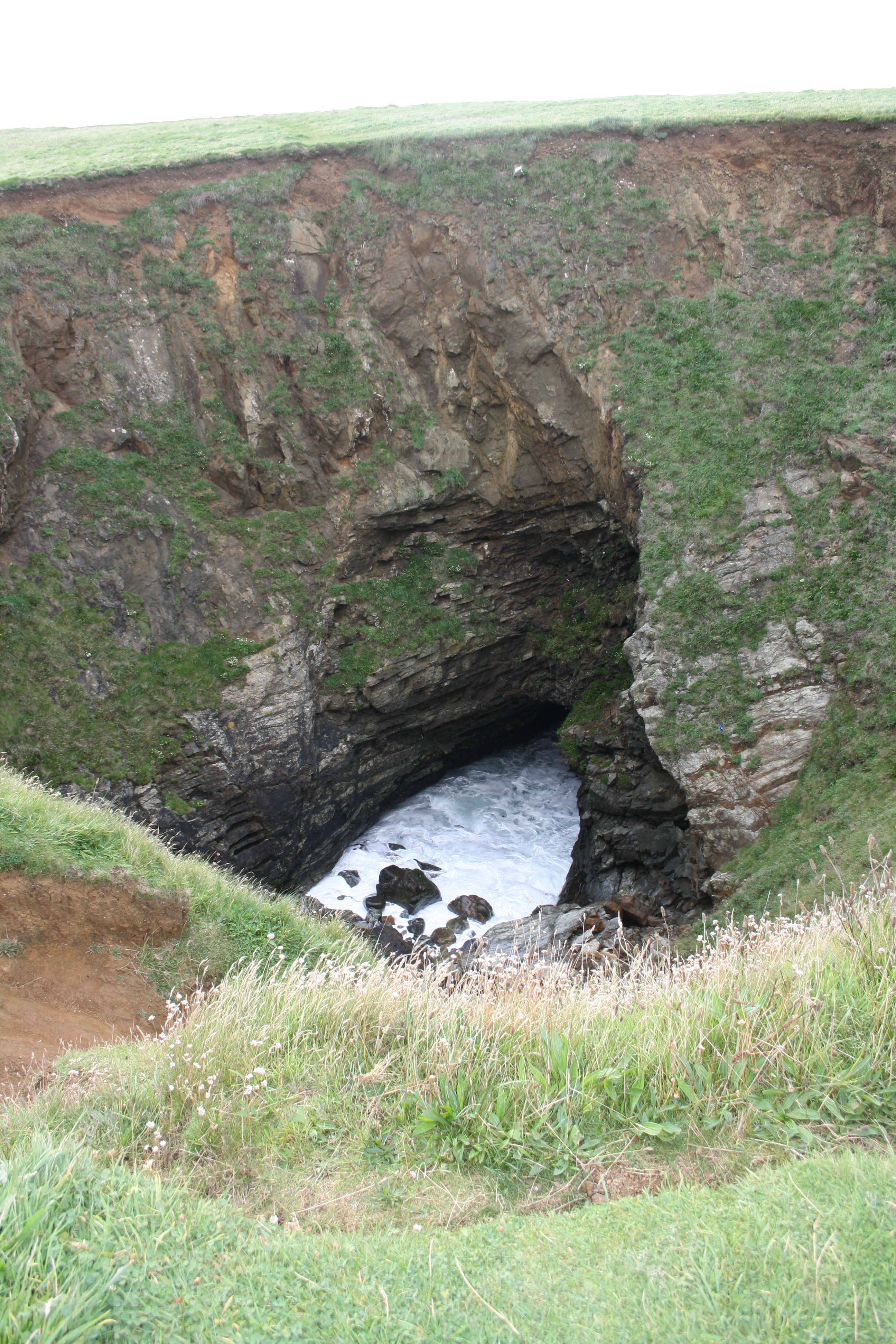 Photograph of the Trevone blowhole, to the right of the cliff faces, when looking out to sea.